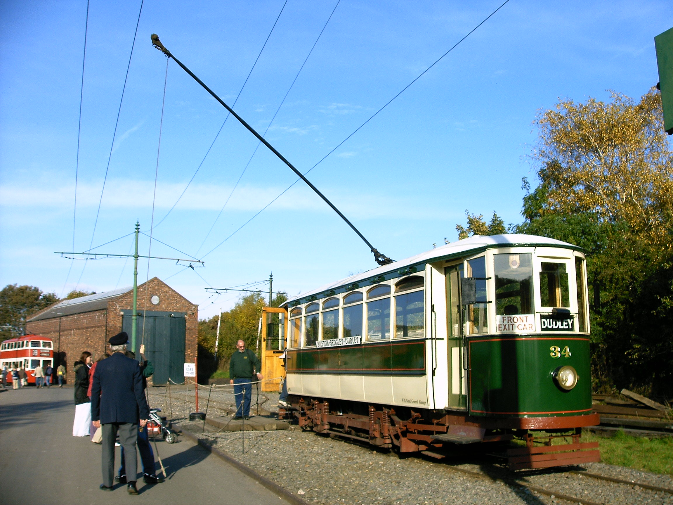 Tram at Black Country Living Museum. At the end of the line, the pantograph is turned around so that it makes a trailing contact with the electricity supply.